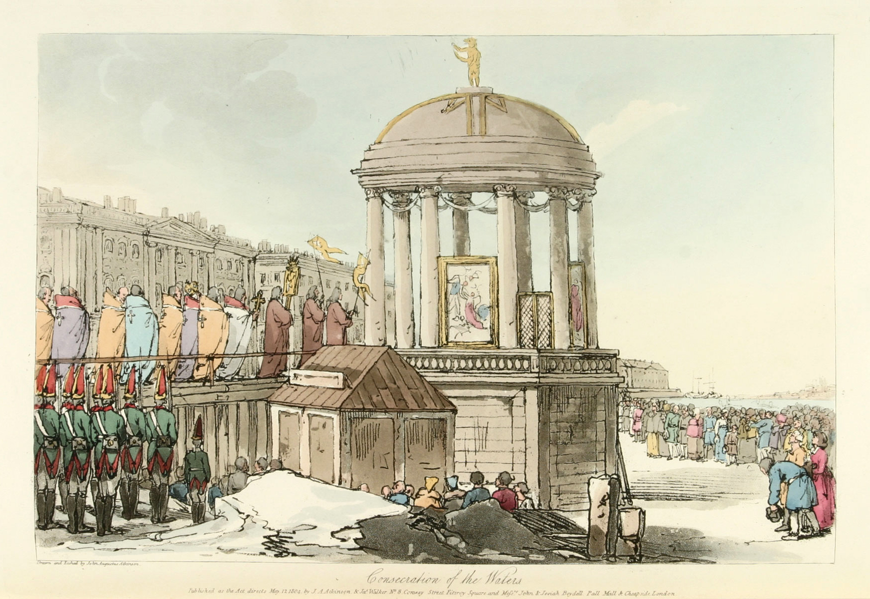 J. A. Atkinson. Consecration of the waters in S.Pb near the Winter palace. 1803